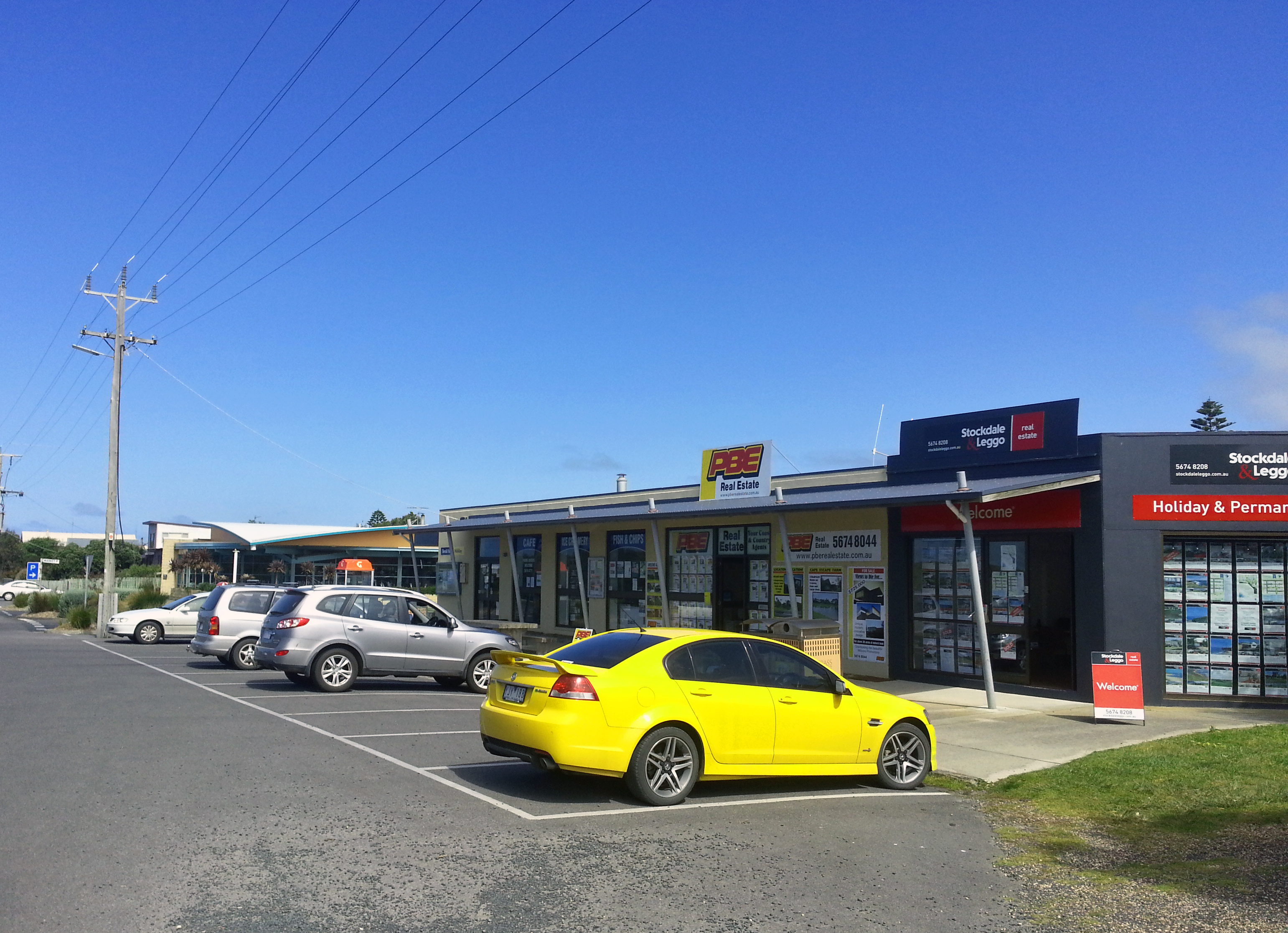 The main shops and street in Cape Paterson 2013 Victoria, Australia